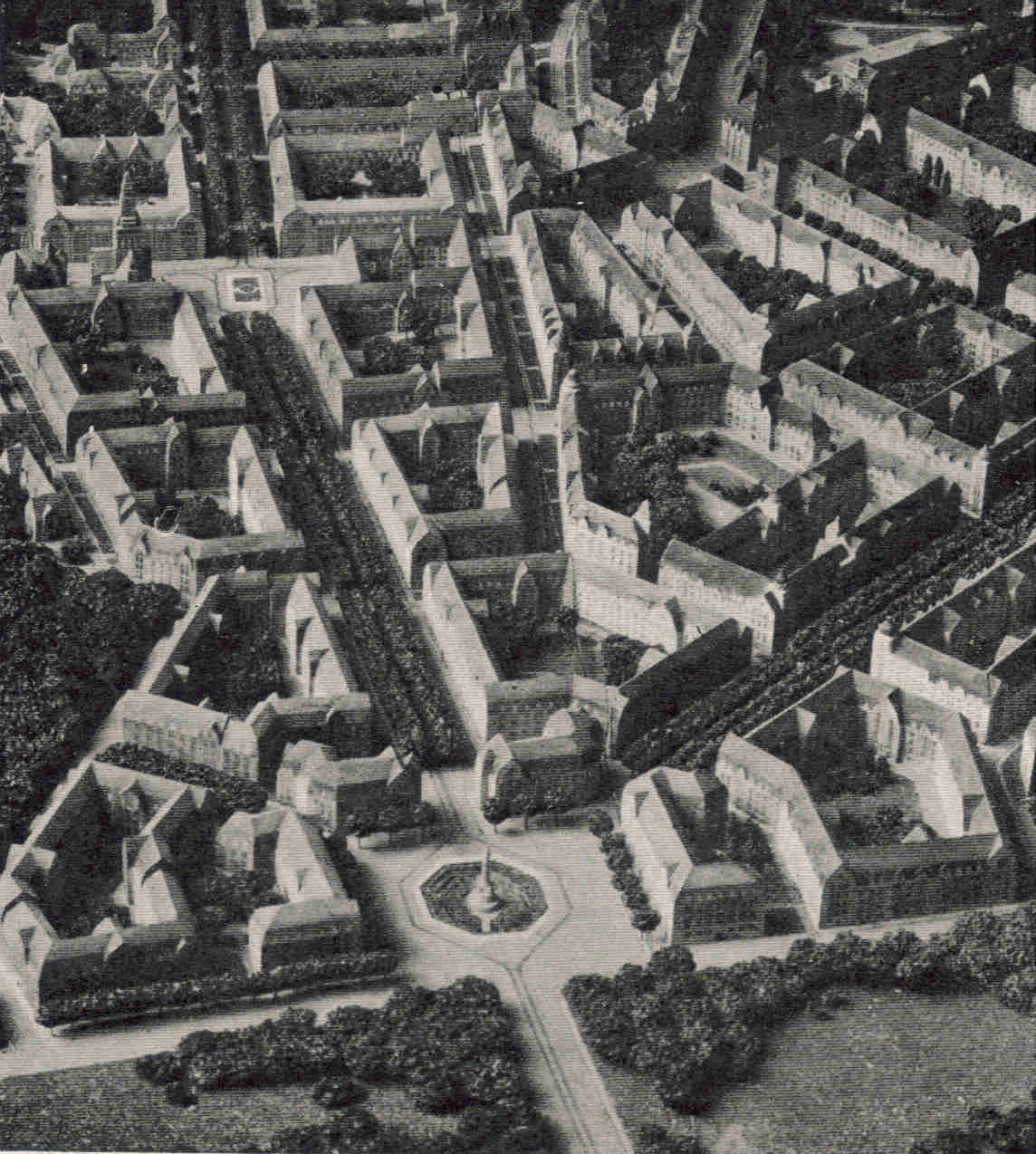 Photograph of a model of the Munksnäs-Haga plan